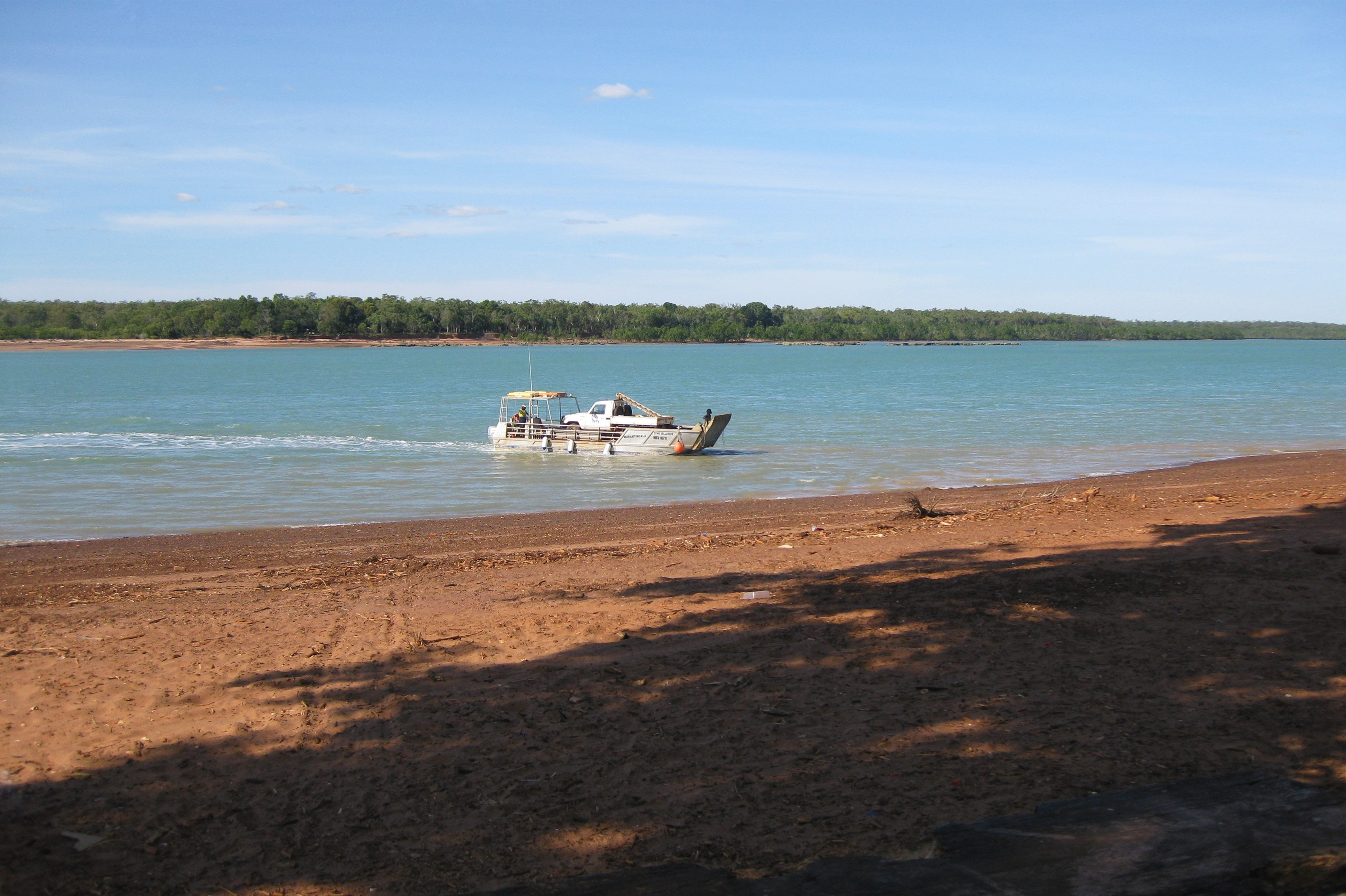 Tiwi Islands Car Ferry, 2011, seen from Wurrumiyanga on Bathurst Island across Apsley Strait to Melville Island